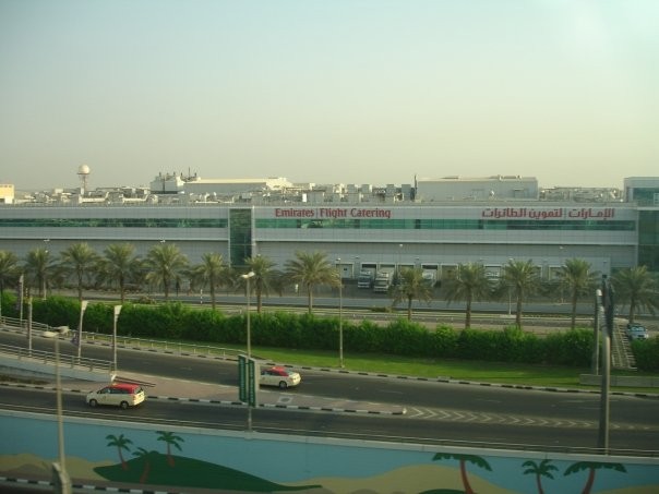 Emirates Flight Catering office view